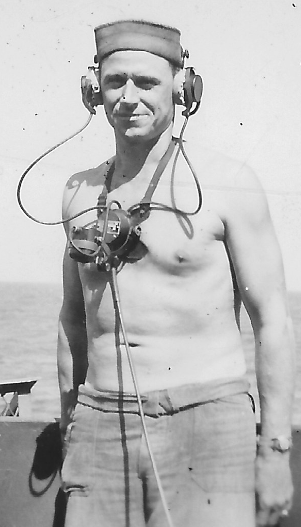 United States Navy sailor with sound powered telephone